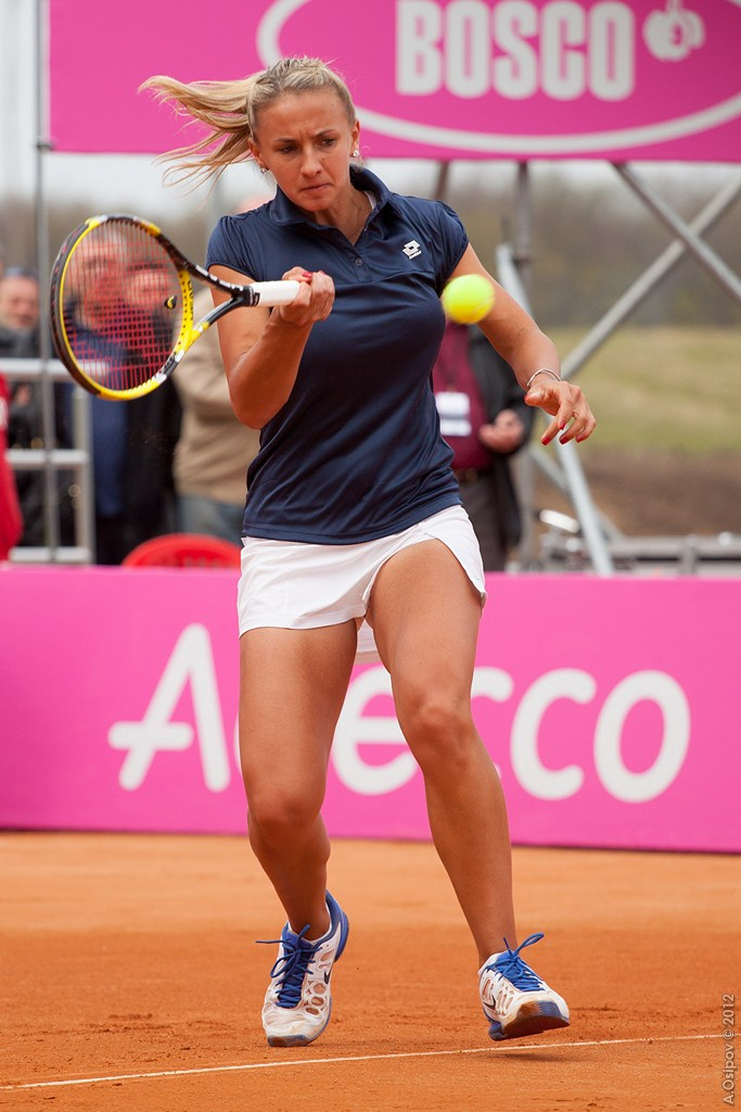 Hitting a forehand against Serena Williams